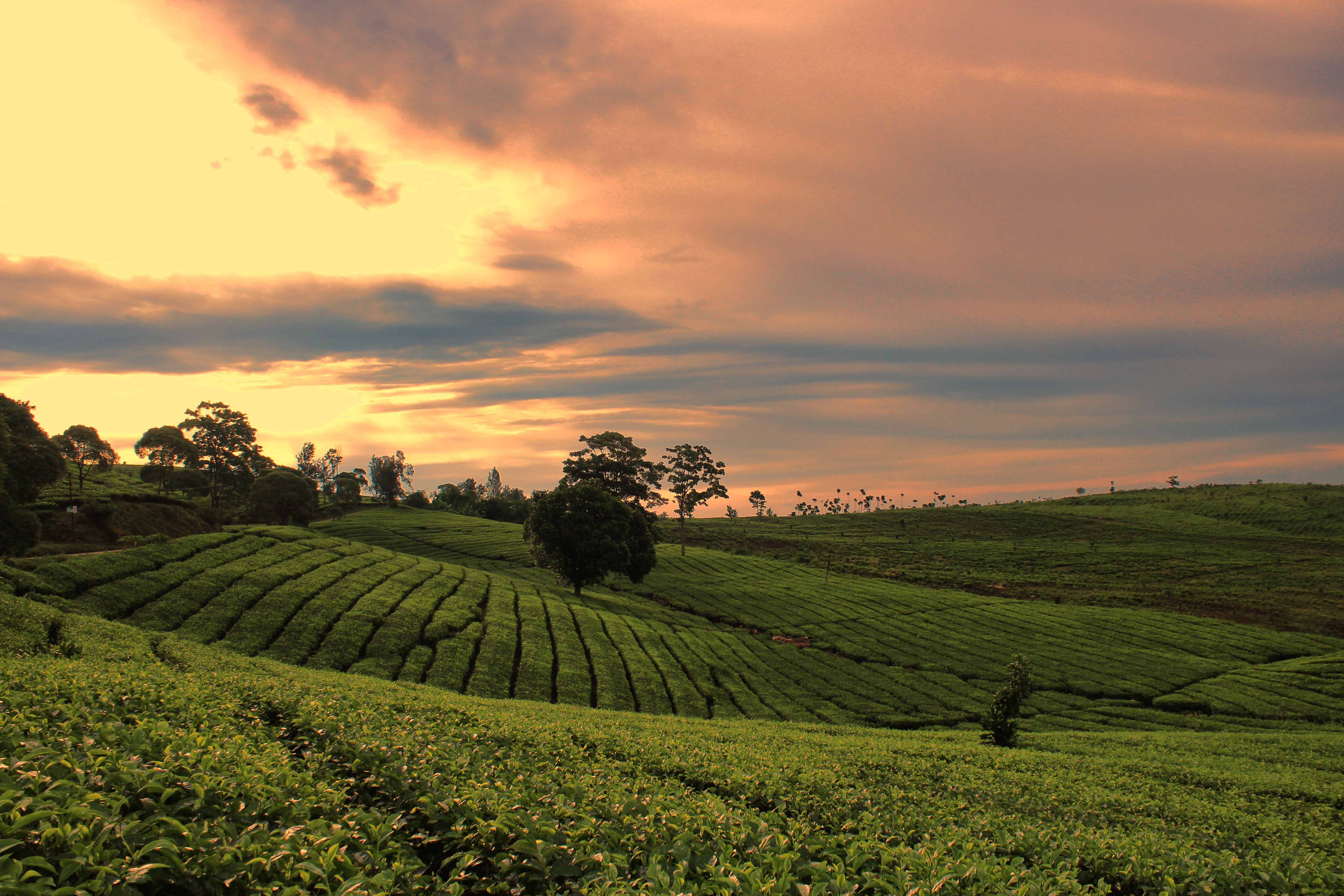 Tea feelds at Ciater, West-Java